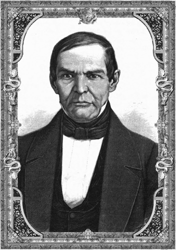 Self-portrait of Pedro María Bernardino Anaya Álvarez, Lithograph (1870-1907).